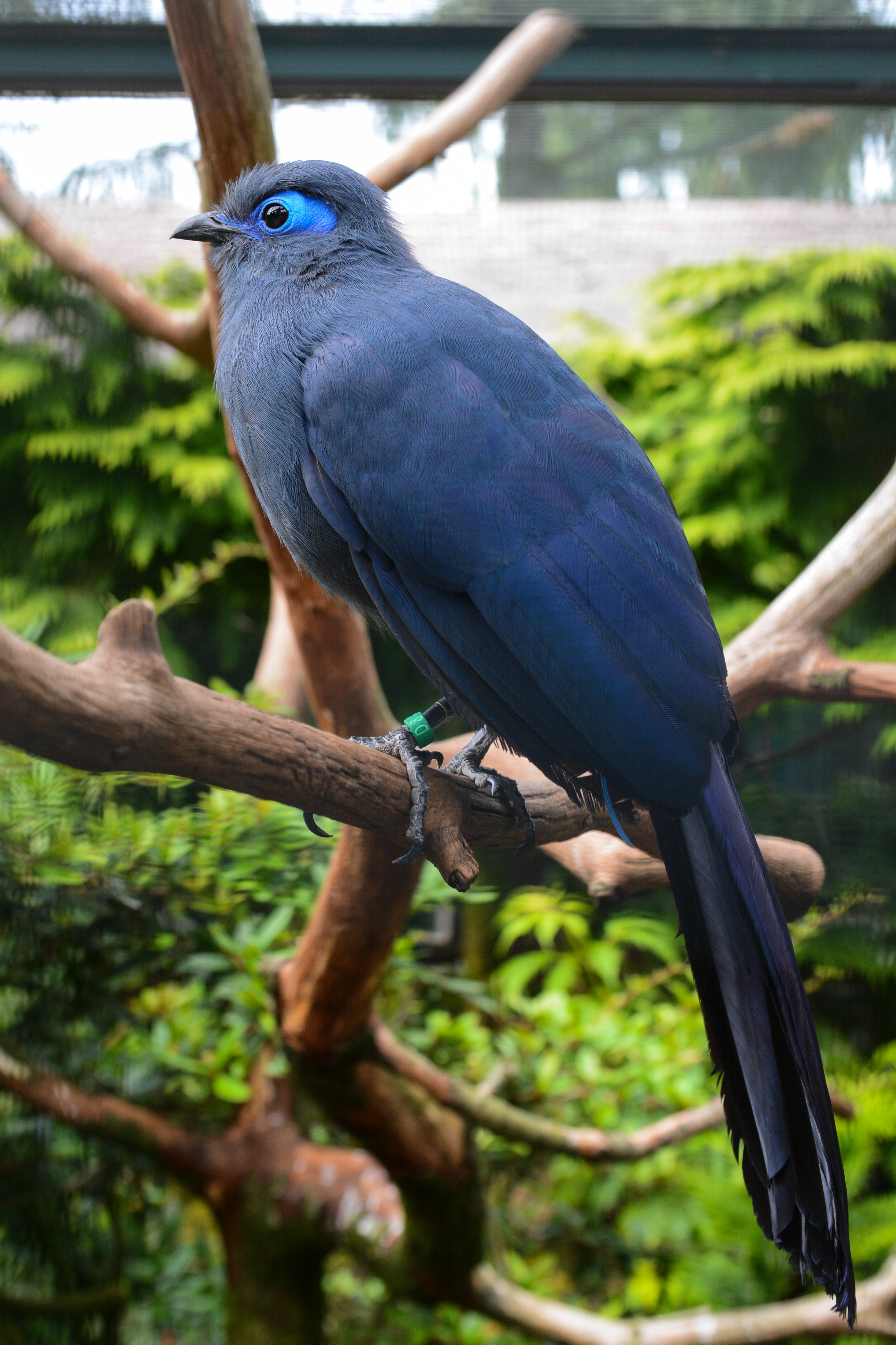 Blue Coua (Coua caerulea) at Weltvogelpark Walsrode (Walsrode Bird Park, Germany)